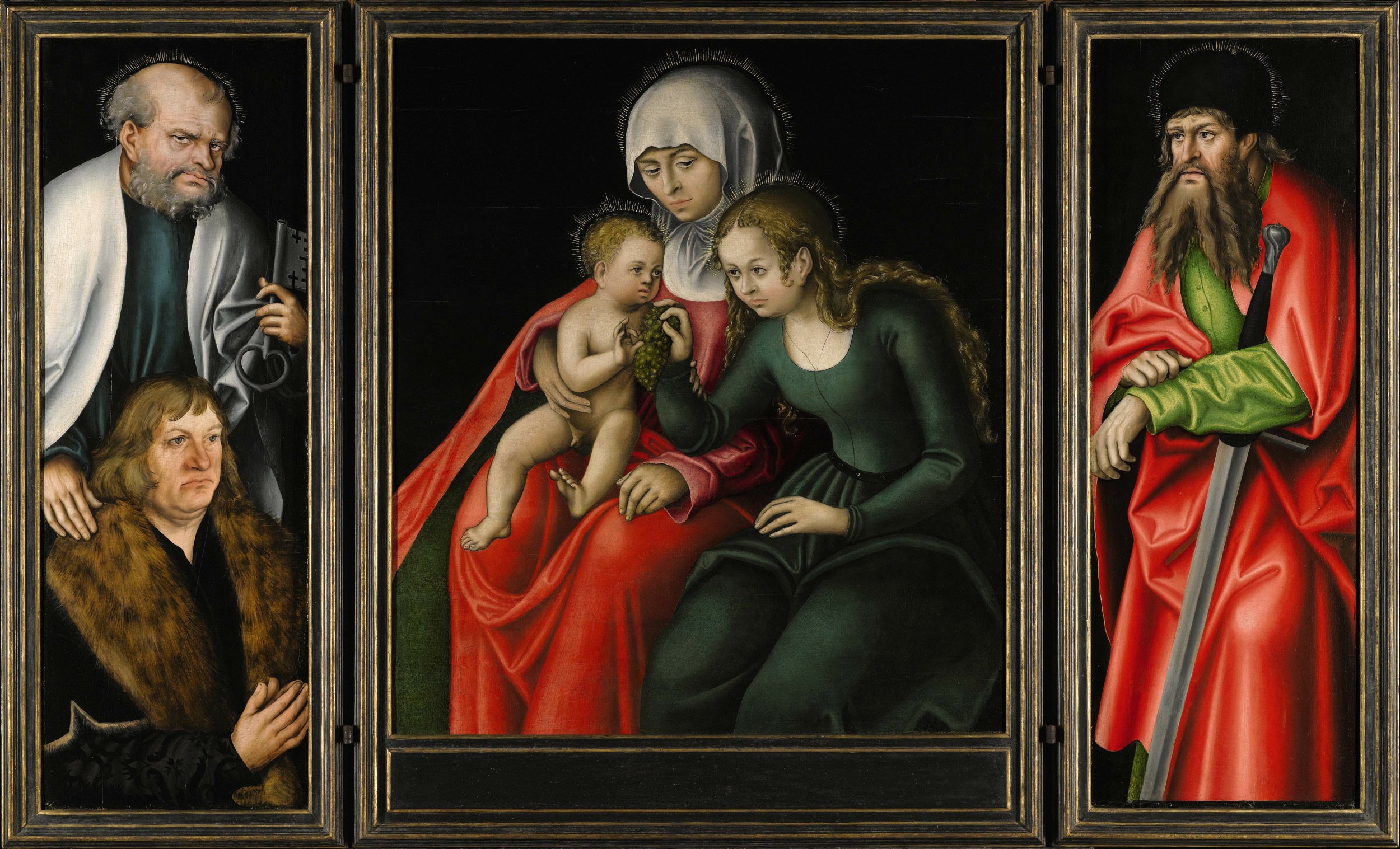 Central panel: Saint Anne with the Virgin and the Christ Child; Left internal wing: Saint Peter with Jobst Feilitzsch as a donor; Right internal wing: Saint Paul Left outer wing: Saint John the Evangelist; Right outer wing: Saint Catherina of Alexandria